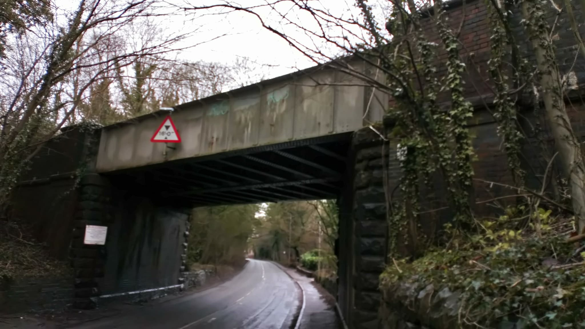 My own photo.